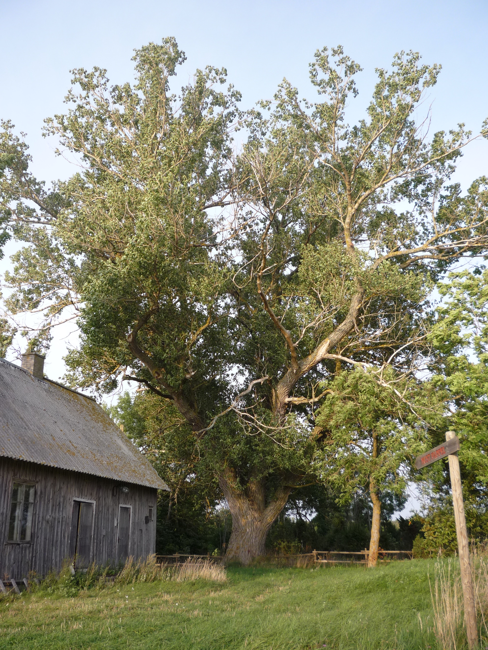 Populus nigra in Kiviküla, Ridala commune, Lääne county, Estonia.